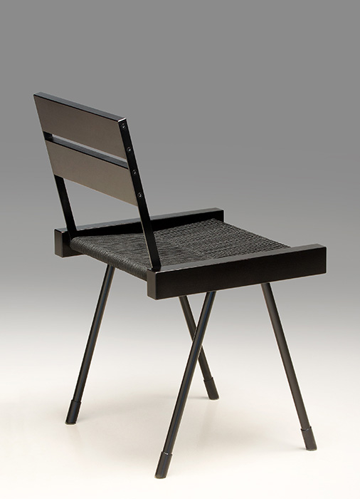 designed by Estonian designer Toivo Raidmets